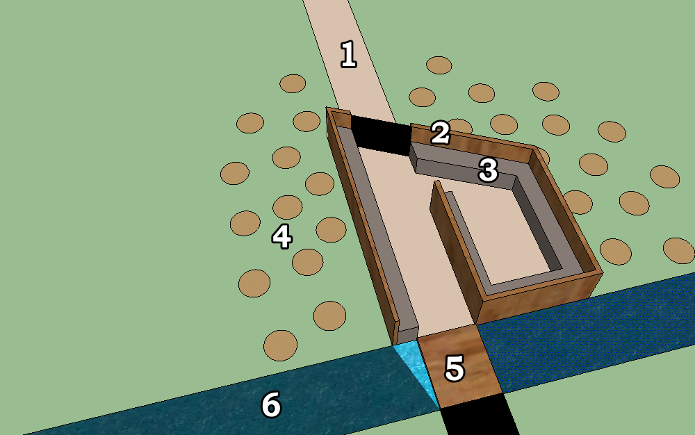 Tamboer (fortification), for direct defence of an entree